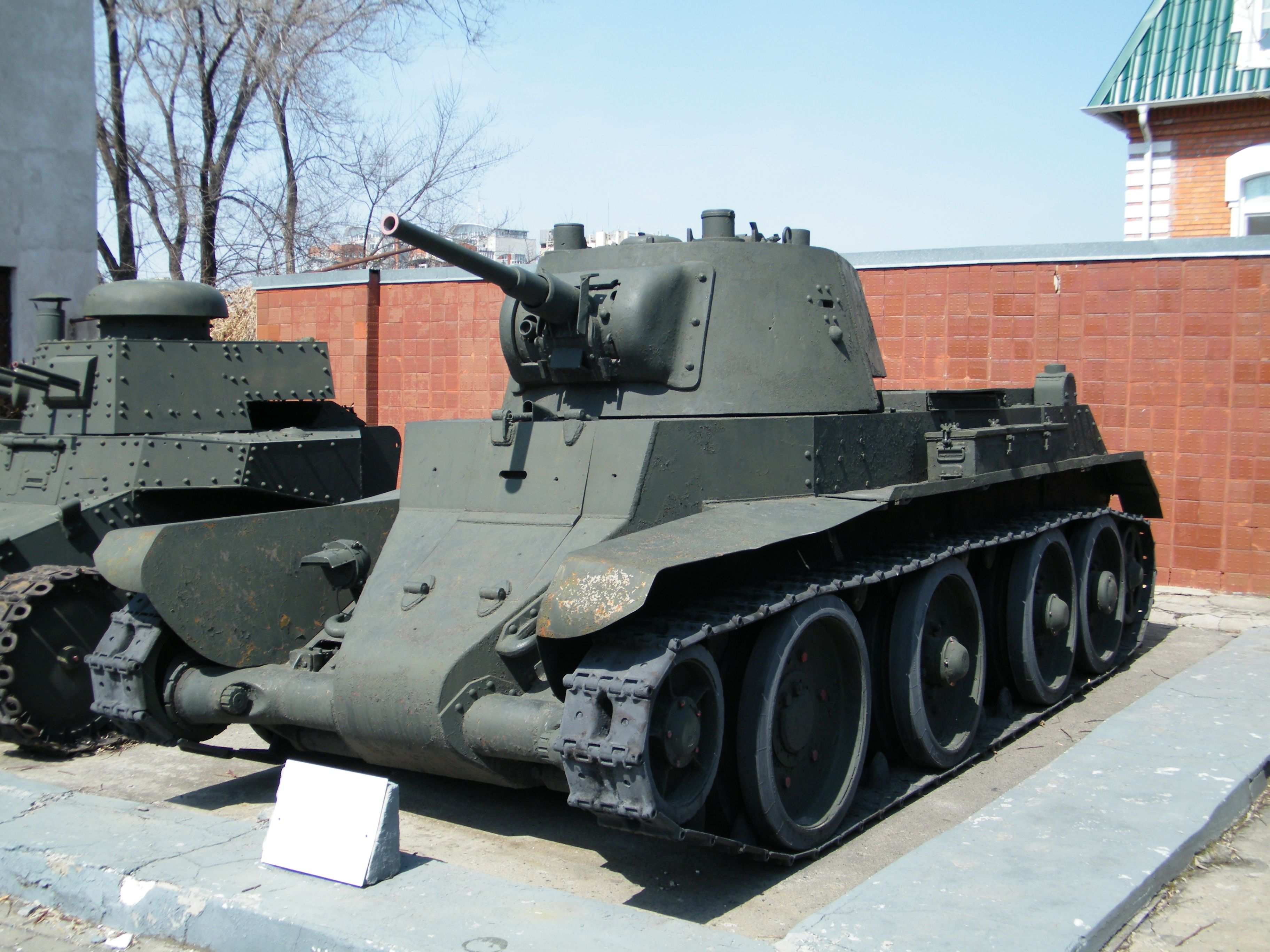 BT-7 Model 1937